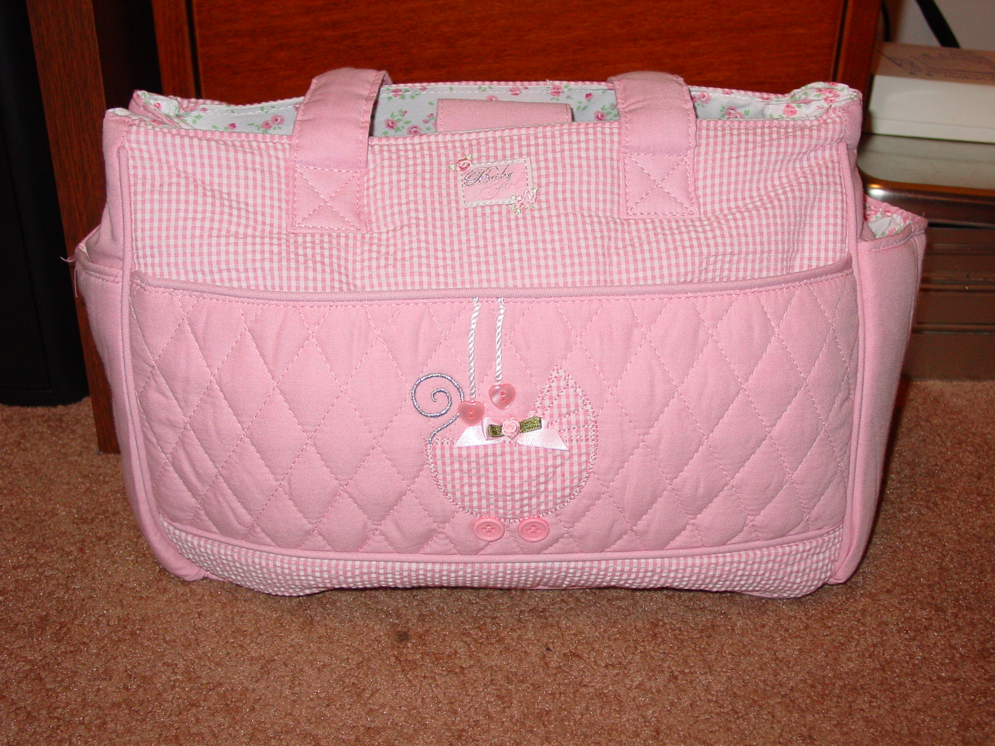 A typical baby's diaper bag, over-shoulder style.